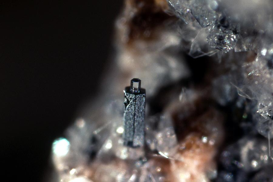 Nepheline on a long prismatic hexagonal Hematite crystal (0.7 mm) - Locality: Wannenköpfe, Ochtendung, Eifel region, Germany